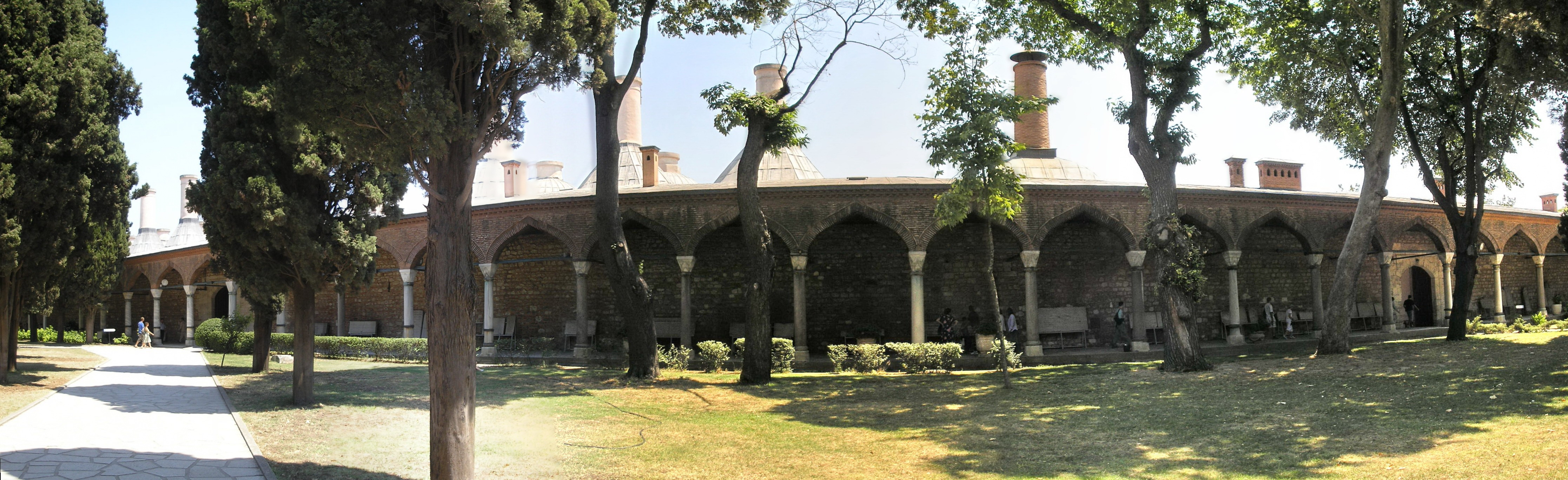 Outside view of the palace kitchens with the chimneys, in Topkapi Palace.